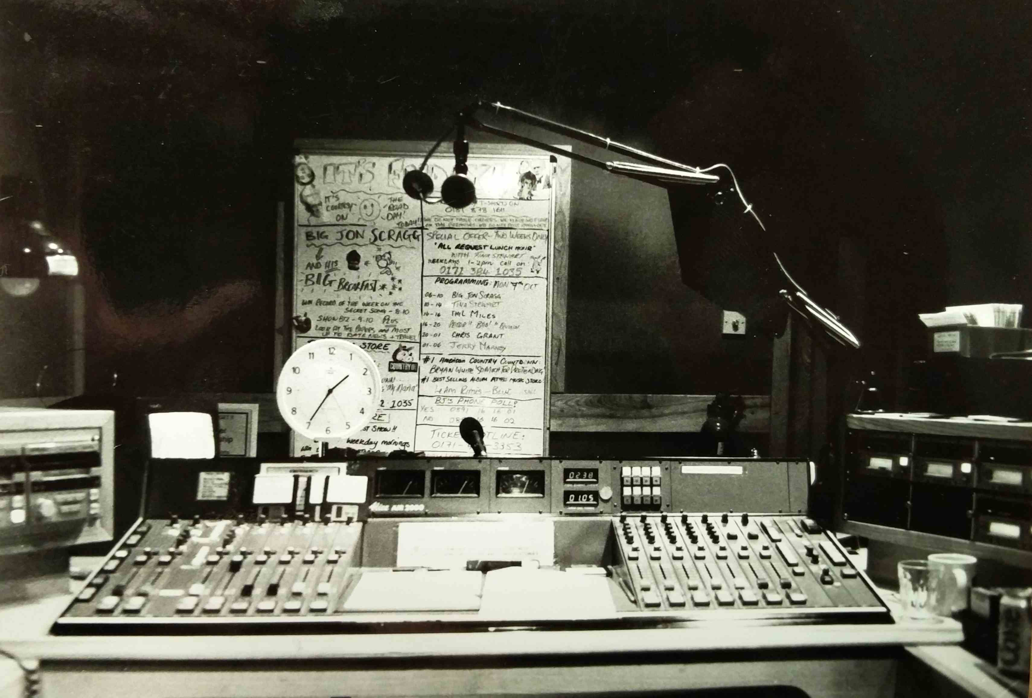 Country 1035 Studio 1 in Parsons Green, London, circa